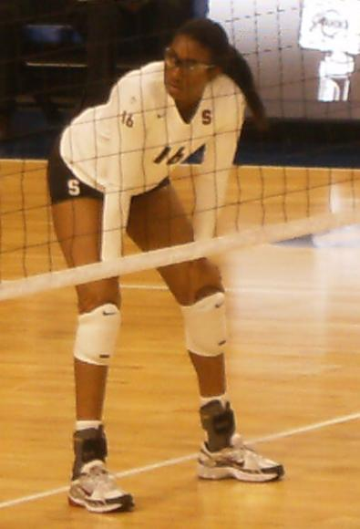 Foluke Akinradewo, volleyball player